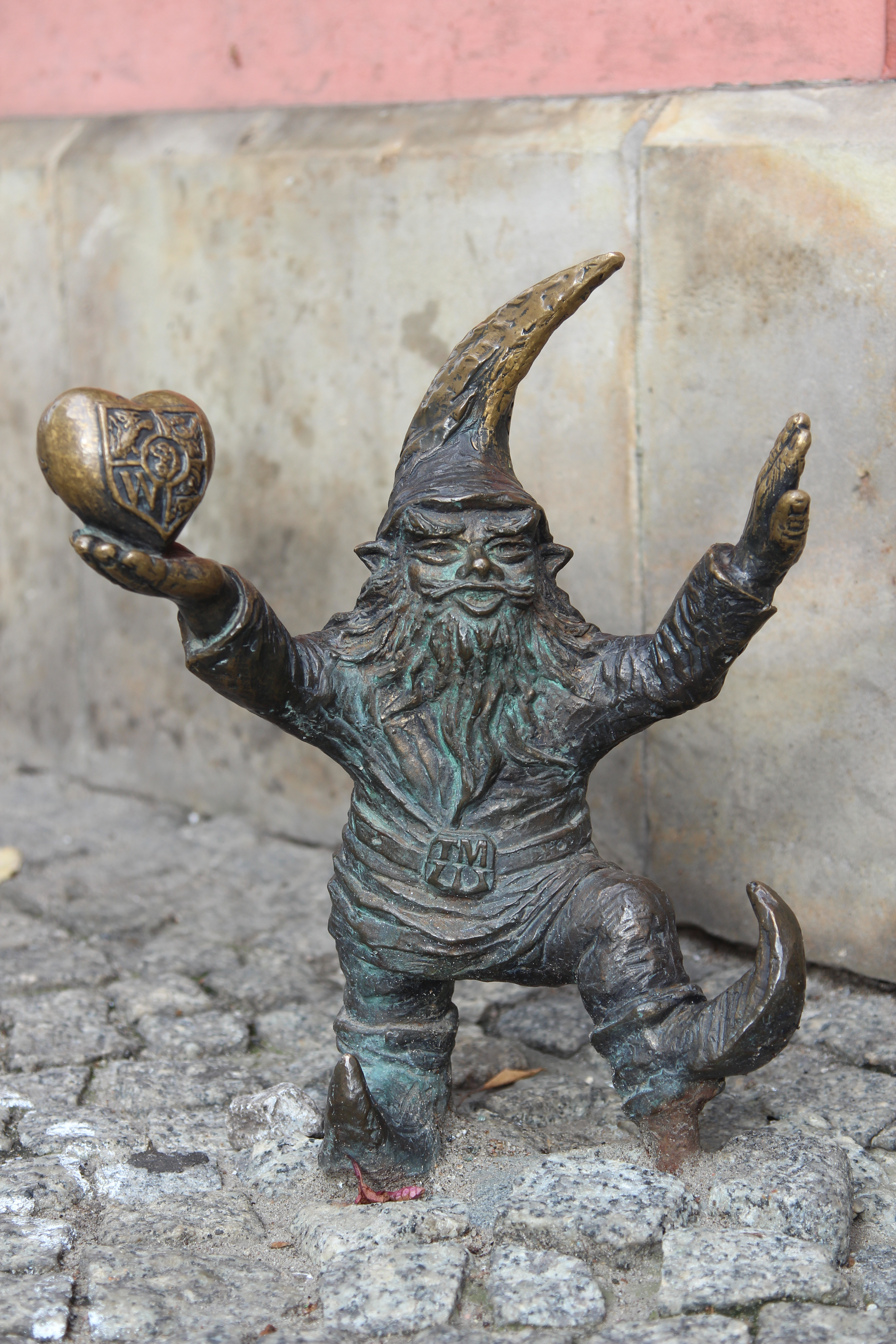 WrocLover (WrocLovek) dwarf in front of tenement house Małgosia (Gretel) on Odrzańska 39-40.